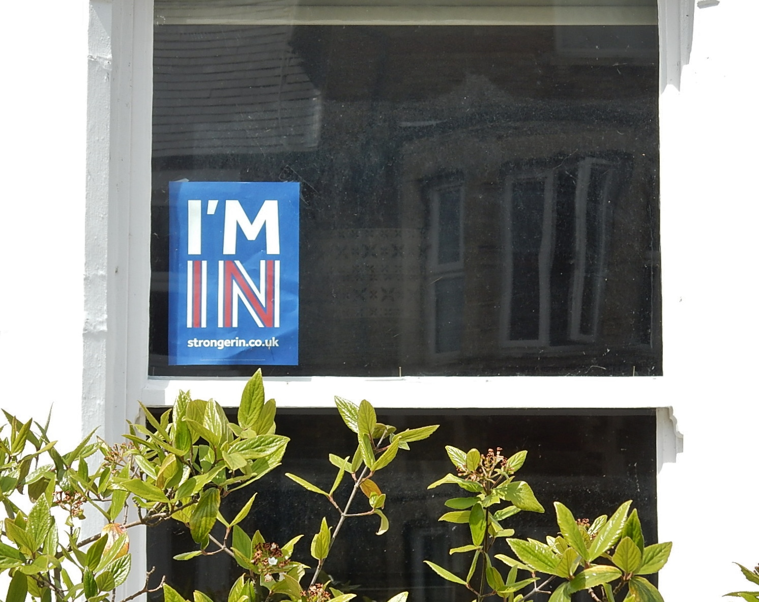 Brexit Opinion poster "I'm In", Oxford